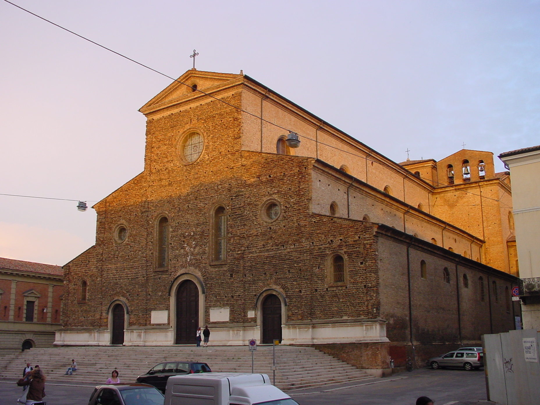 San pietro Cathedral in Faenza, italy. Own work, yesterday ;) Beautiful brick church in the heart of FAENZA (IT). No belltower! Use only with contribution to 'Axel Hammer'